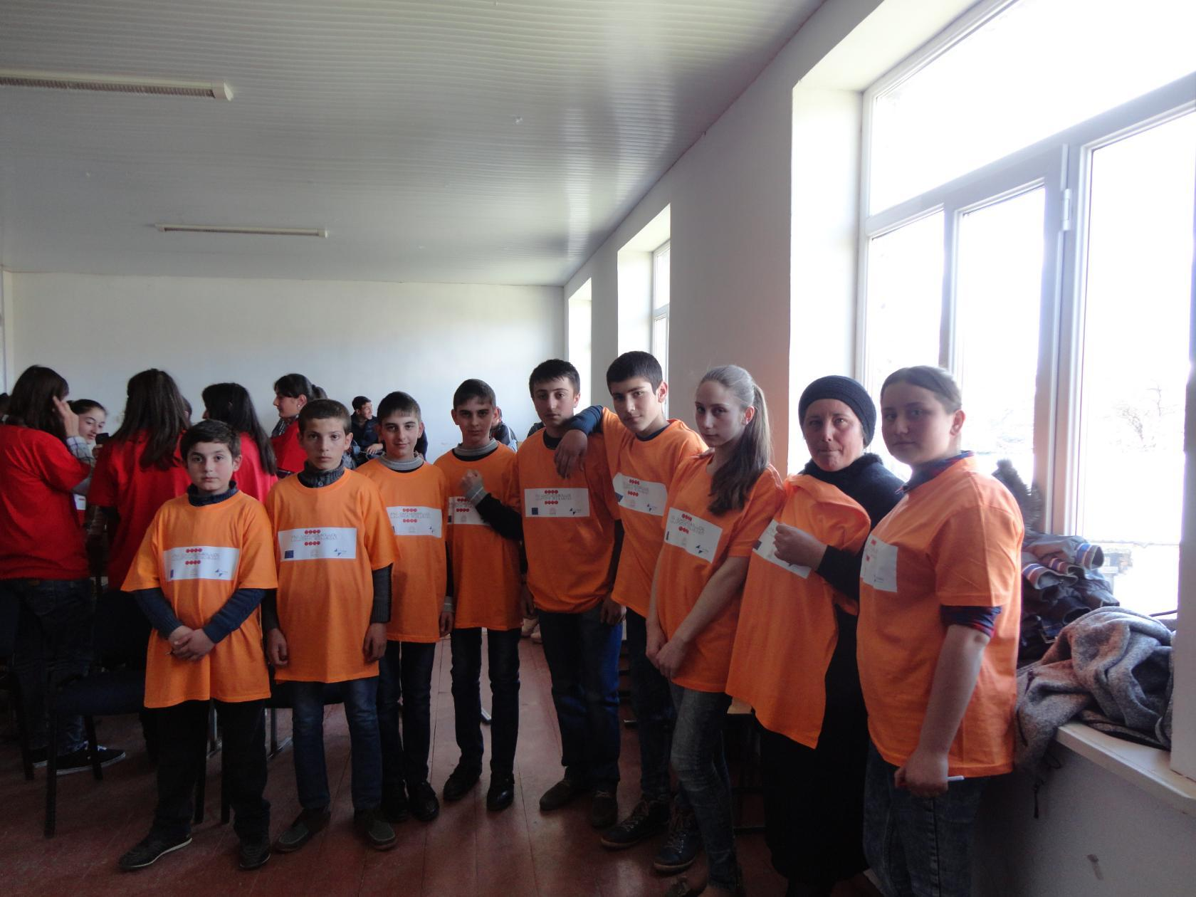 1-փուլ,Սխվիլիսի